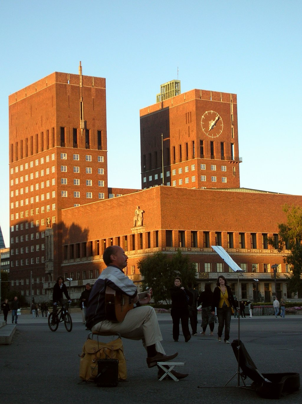 Guitarist-virtuoso, emigrant from east Europe on street in front of city hall in Oslo